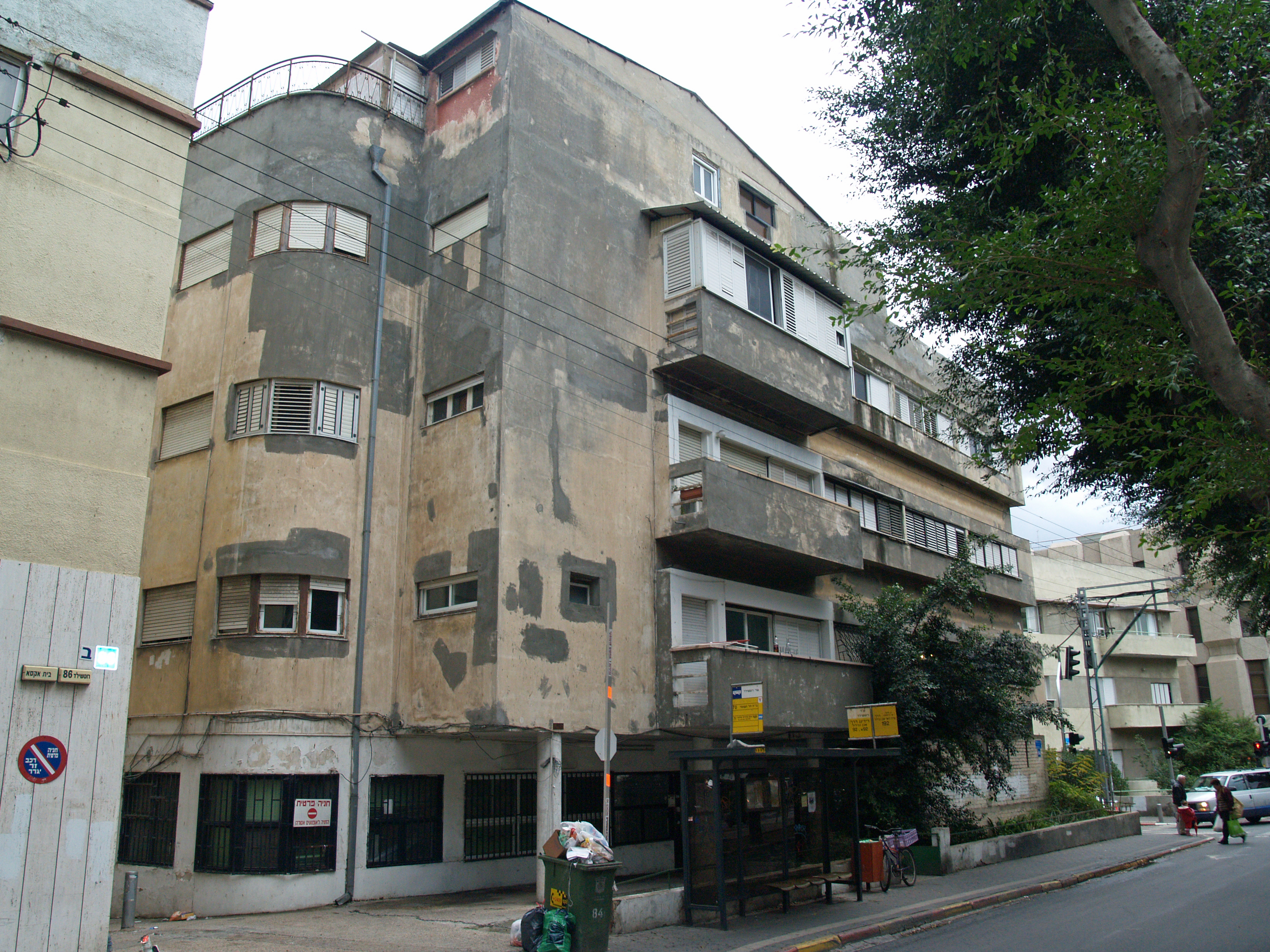 Bauhaus architecture in the White City of Tel Aviv at 84 Rothschild Boulevard, known as "Engel House". Architect: Zeev Rechter, 1933. A Large residential building that has become one of the symbols of Modernist architecture. The first building in Tel Aviv to be built on pillars (pilotis).